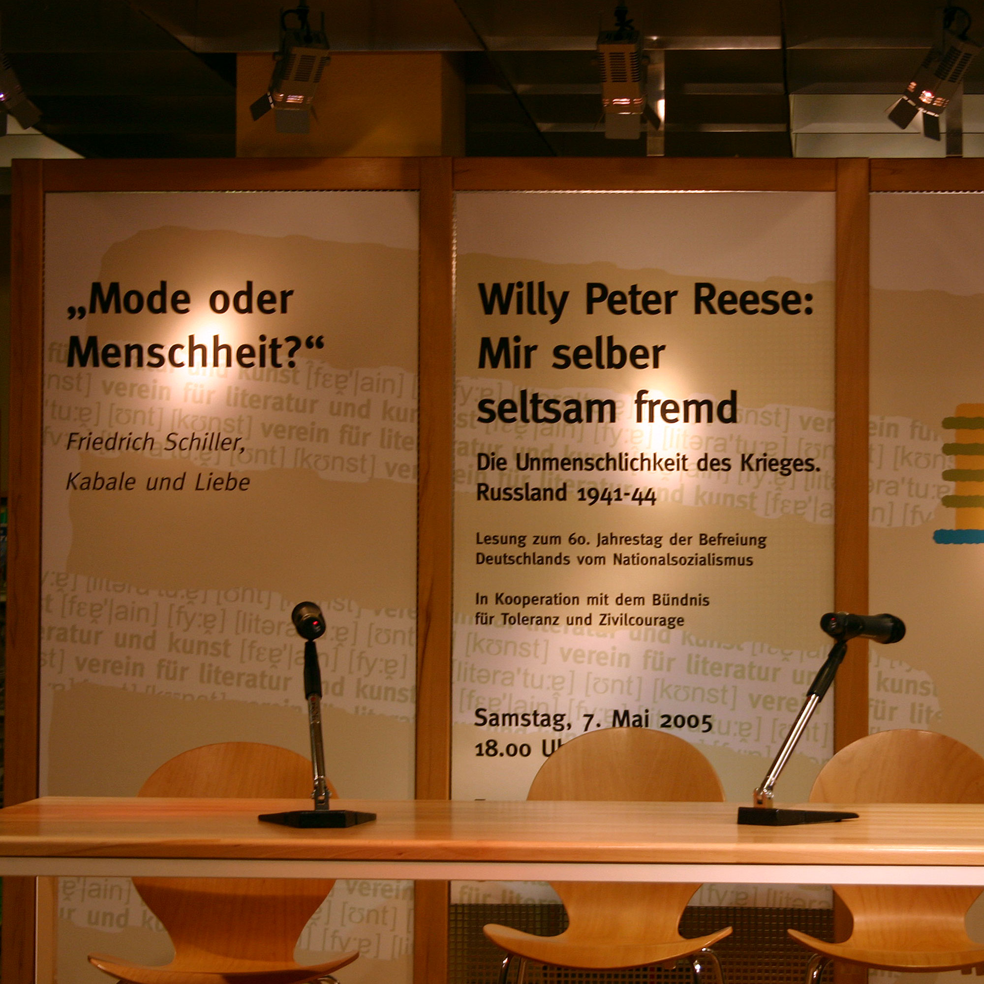 Stage decoration for a reading in a library in Duisburg on the occasion of the 60th anniversary of Victory Day, 2005. (Part of the original photo; photographed by BlackIceNRW.)